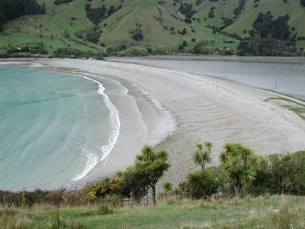 Cable Bay in the Nelson Region - the thin strip of land connects Pepin Island with the mainland